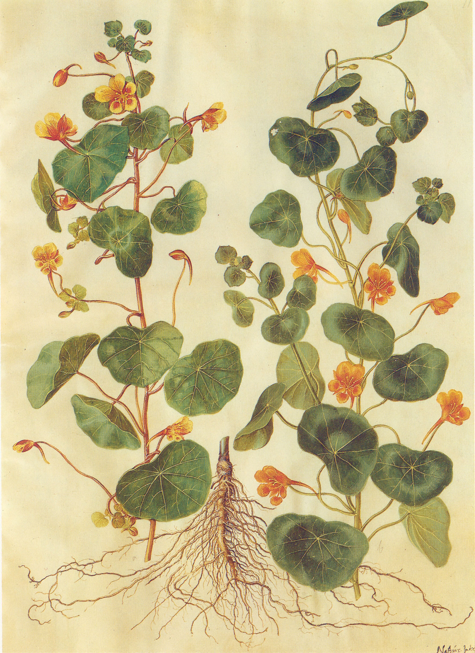 Tropaeolum majus, gouache on vellum, in: Gottorfer Codex